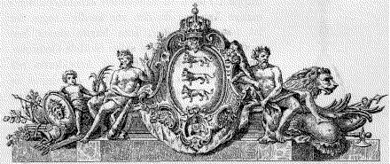 Drawing by Louis-Augustin Le Clerc (1688-1771) for the frontispiece relief, Christiansborg Palace (burned in 1794).